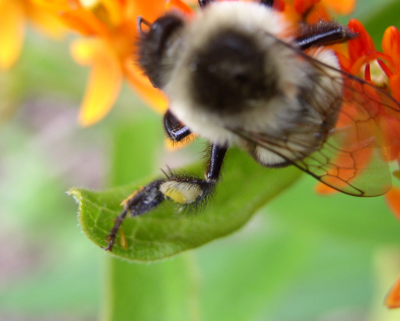 Bumblebee with corbicula full of pollen. Pennypack Restoration Trust, Montgomery County, Pennsylvania, USA Southeastern PA